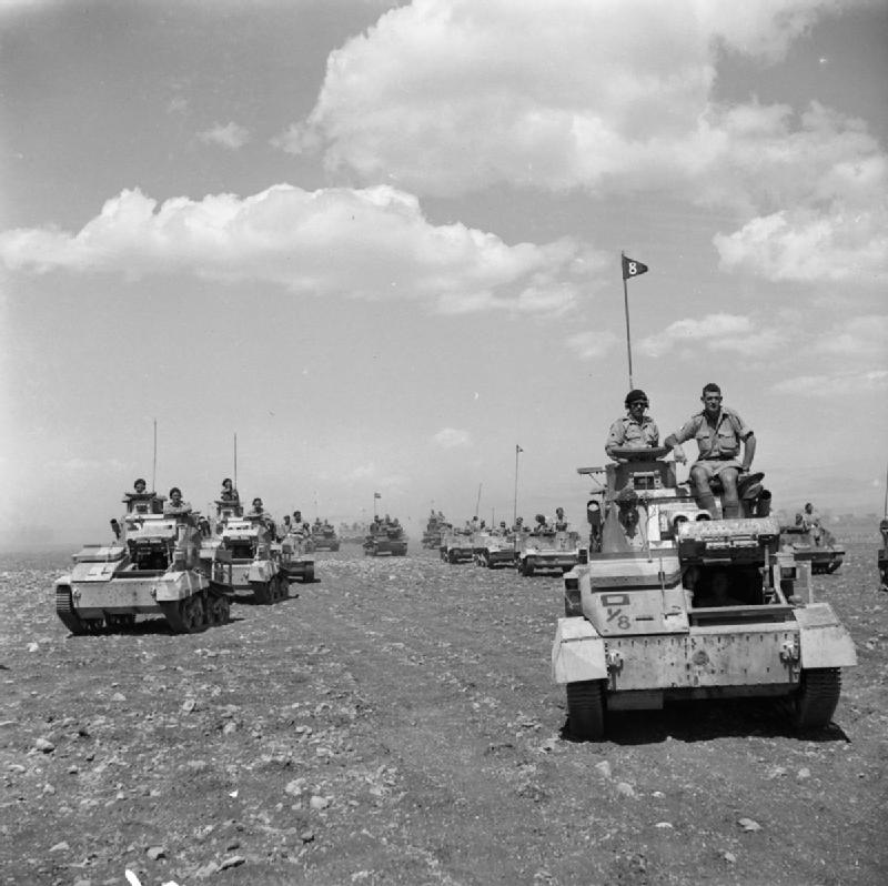 The British Army in the Middle East 1941 Light Tanks Mk VIBs and Bren gun carriers approaching the saluting base at an inspection of armoured vehicles of the 9th Australian Cavalry Regiment, attached to the 6th Division, at Ballbeck, Lebanon, 27 August 1941.